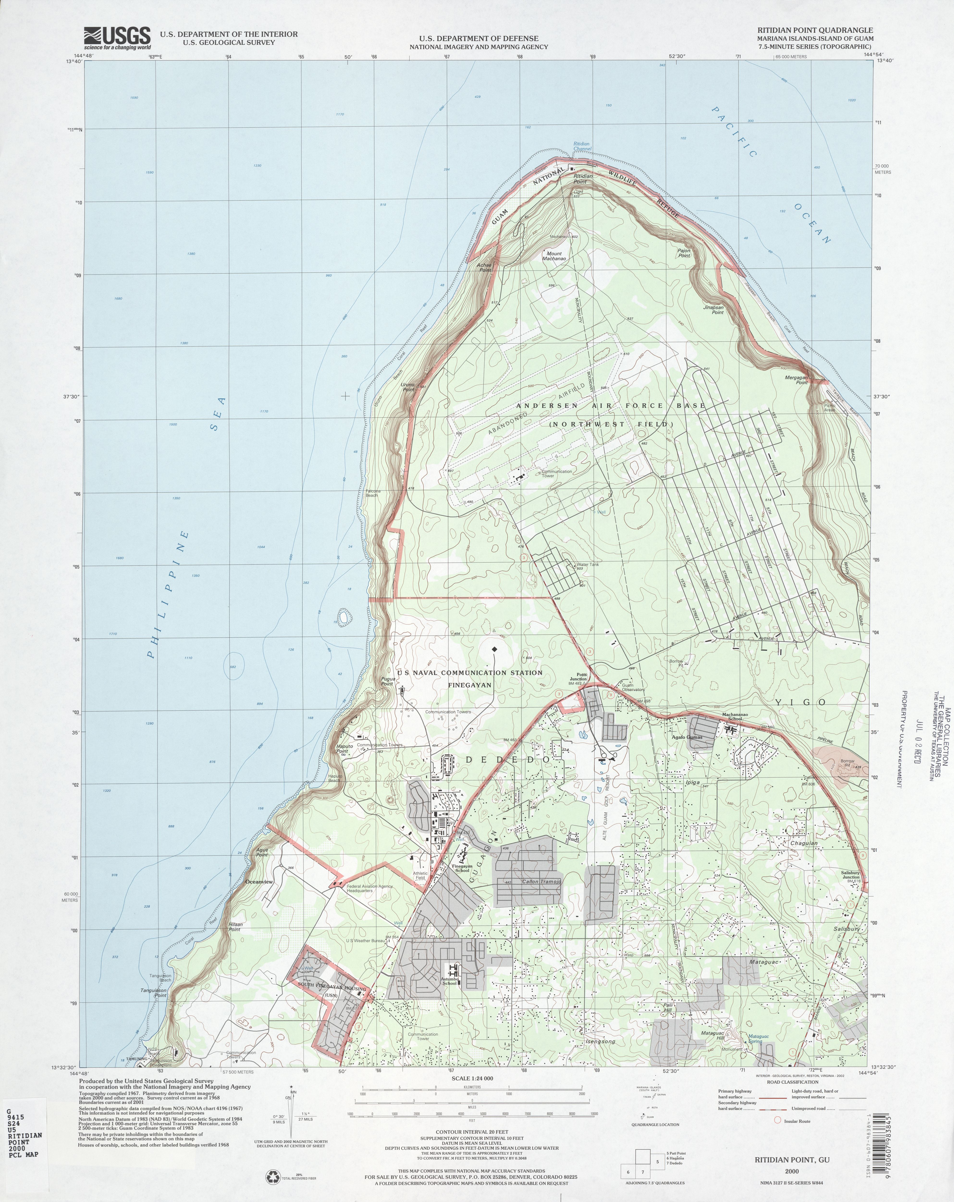 Section map of Guam, USA, by the United States Geological Survey (USGS). 1 : 24,000 scale; dated 2000.